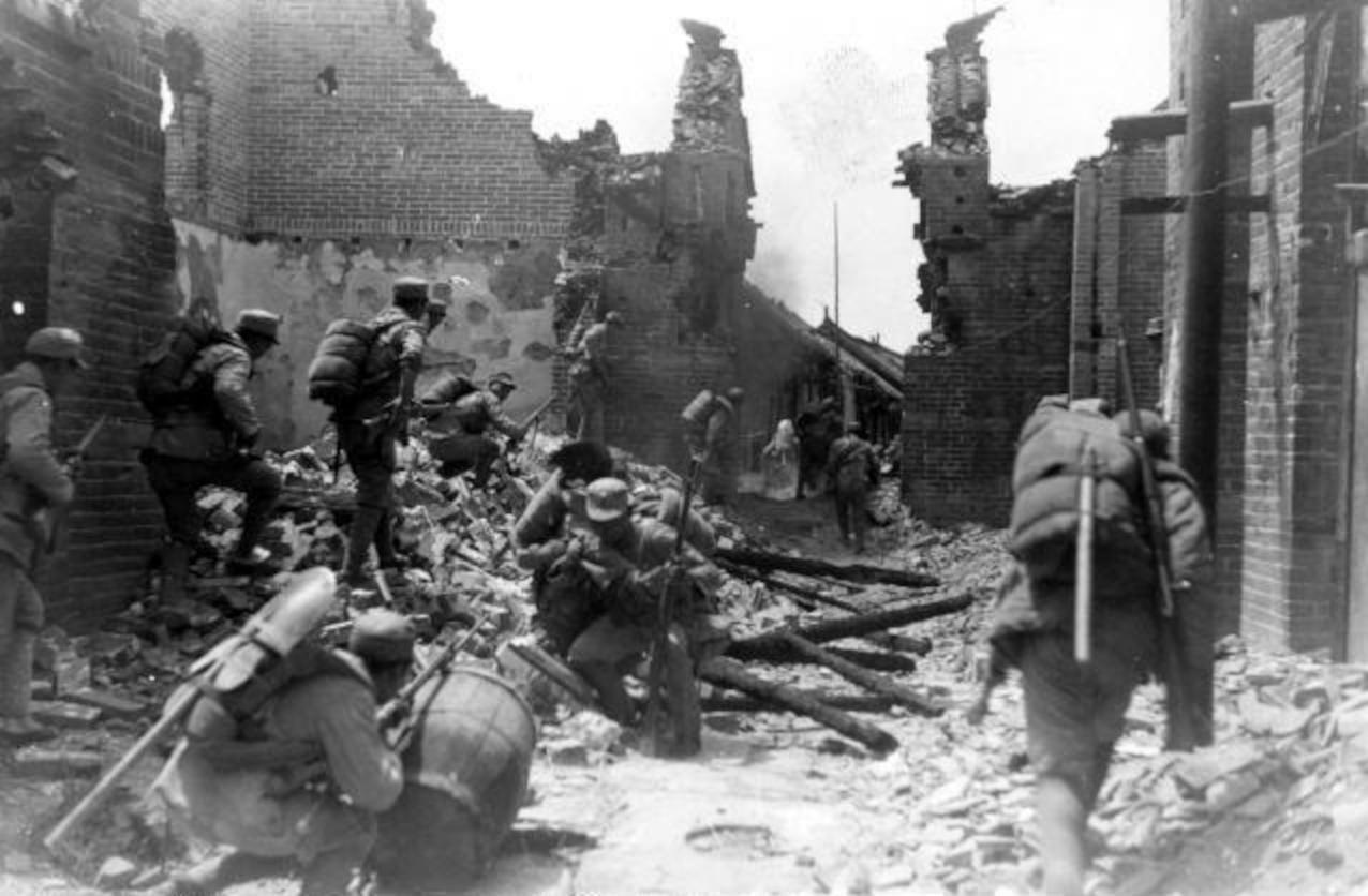 Chinese soldiers in house-to-house fighting in the Battle of Tai'erzhuang